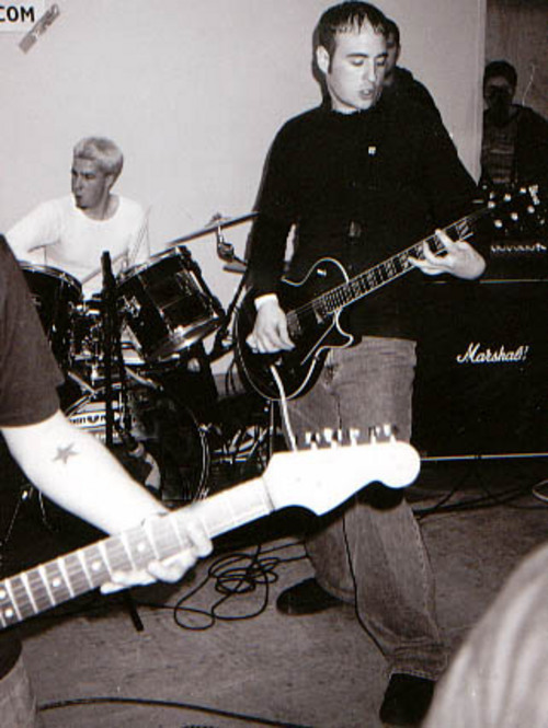 Pencey Prep, December 2000 at the Wayne Firehouse, opening for Nada Surf.